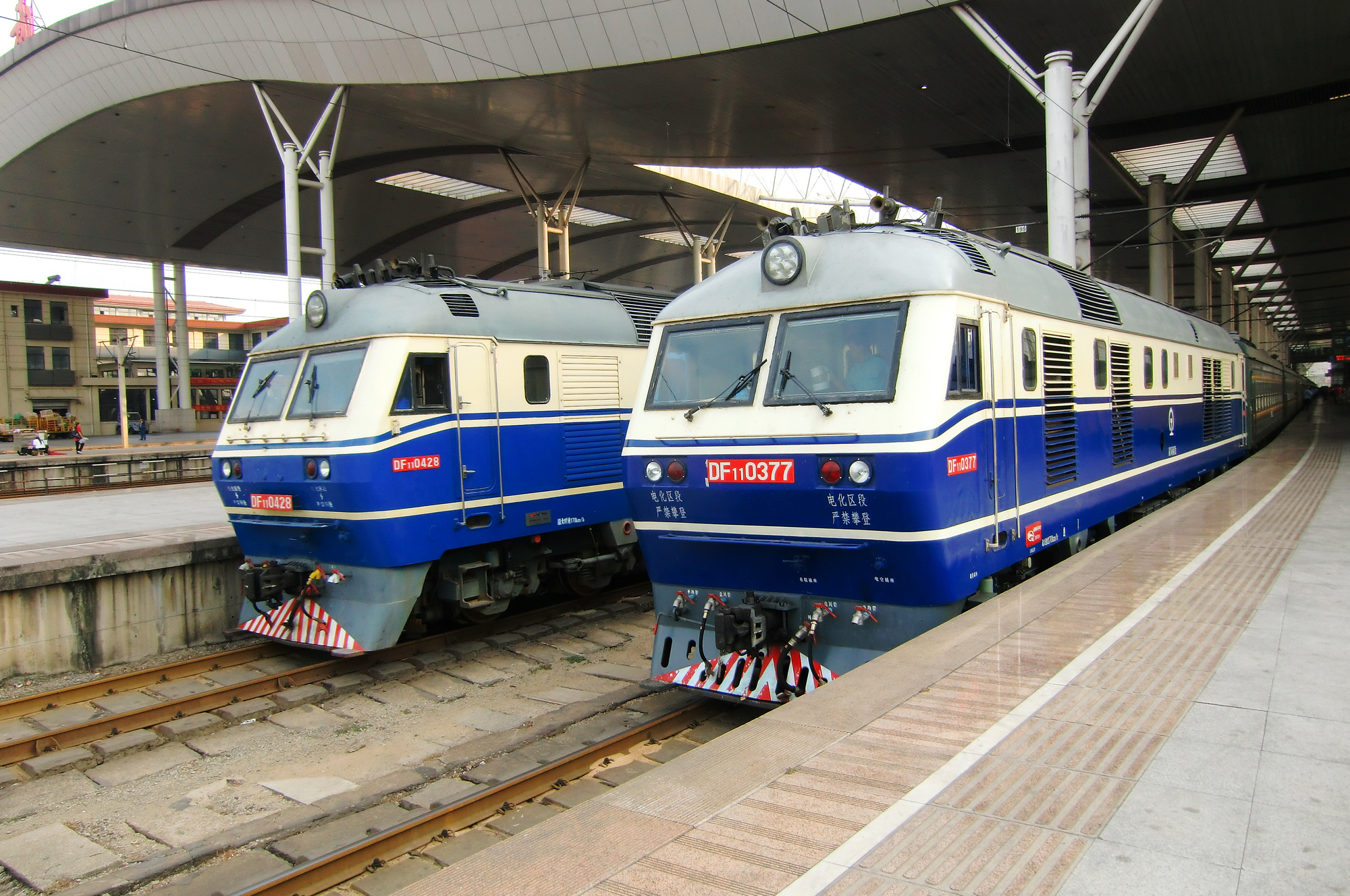 China Railways DF11 0377 and 0428 diesel locomotives in Wuchang Railway Station, Hubei Province, China.